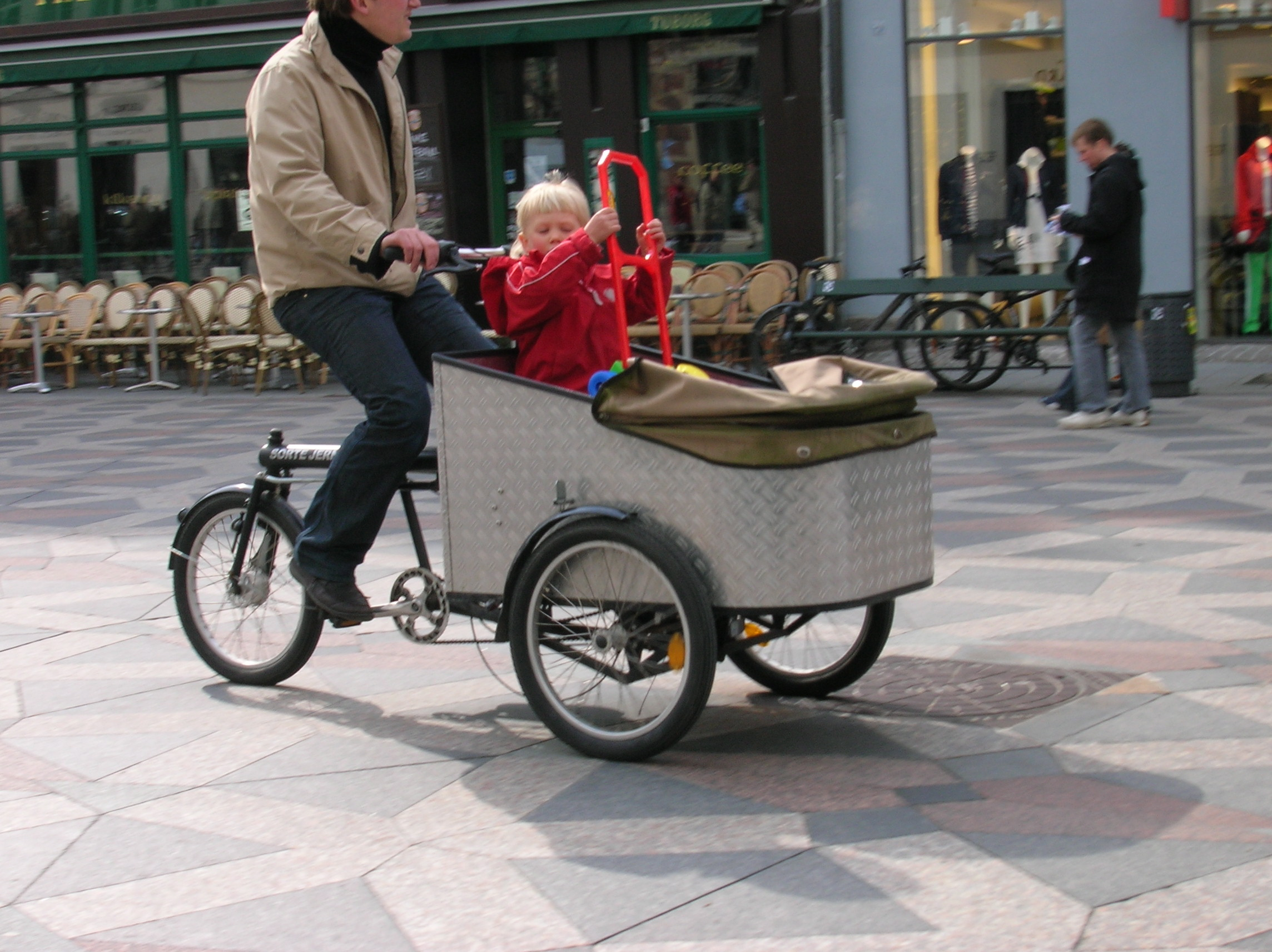 Cargo Bike